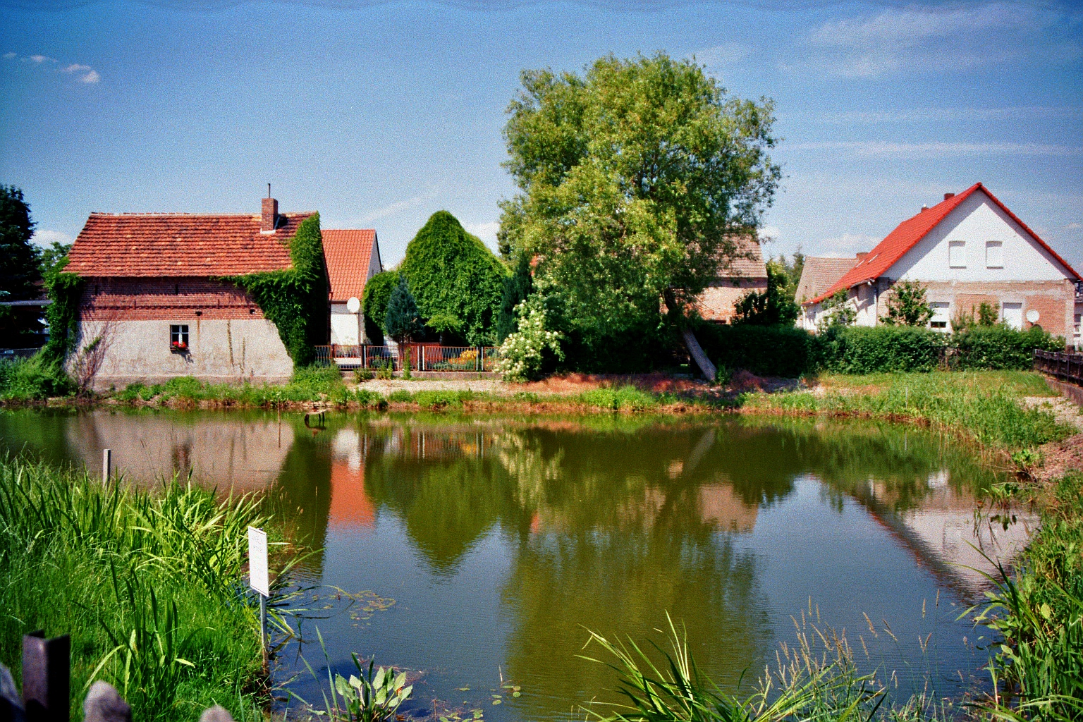 Village pond in Groß Muckrow, Friedland (Niederlausitz), Landkreis Oder-Spree, Brandenburg, Germany.